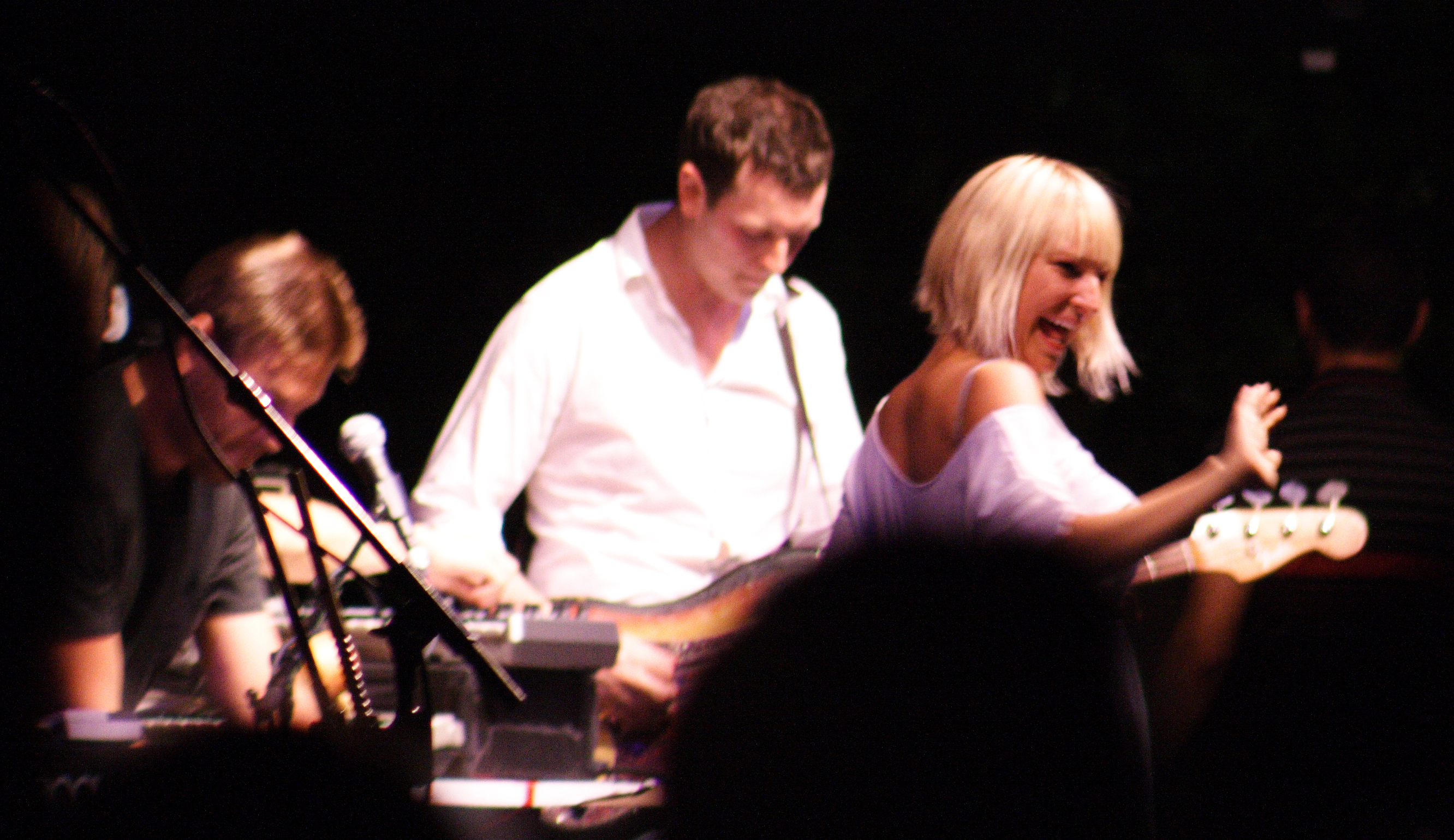 Sia Furler and Zero 7 in concert.